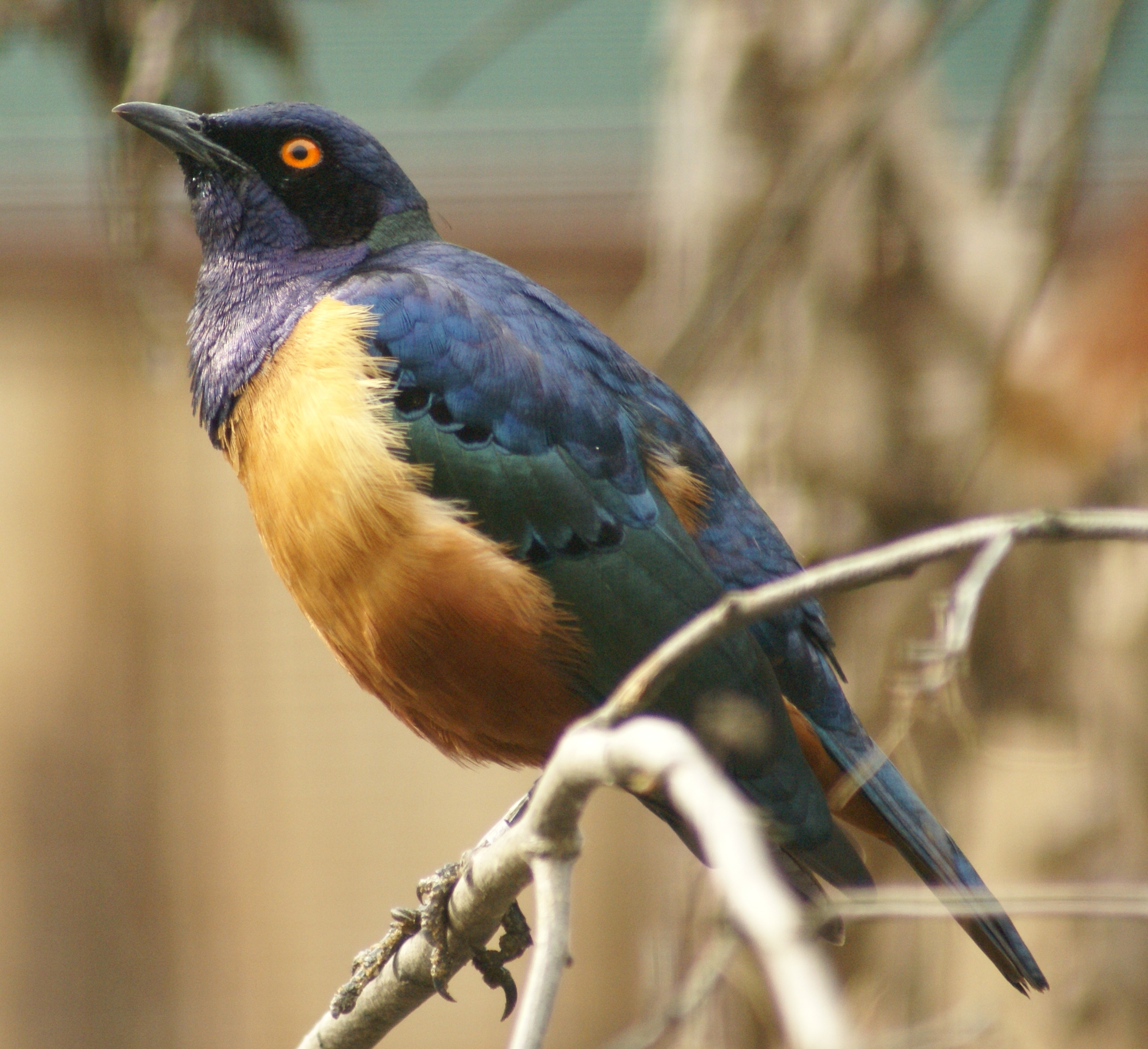 Hildebrandt starling (Lamprotornis hildebrandti, Syn.: Spreo hildebrandti) at Tiergarten Bernburg, Germany